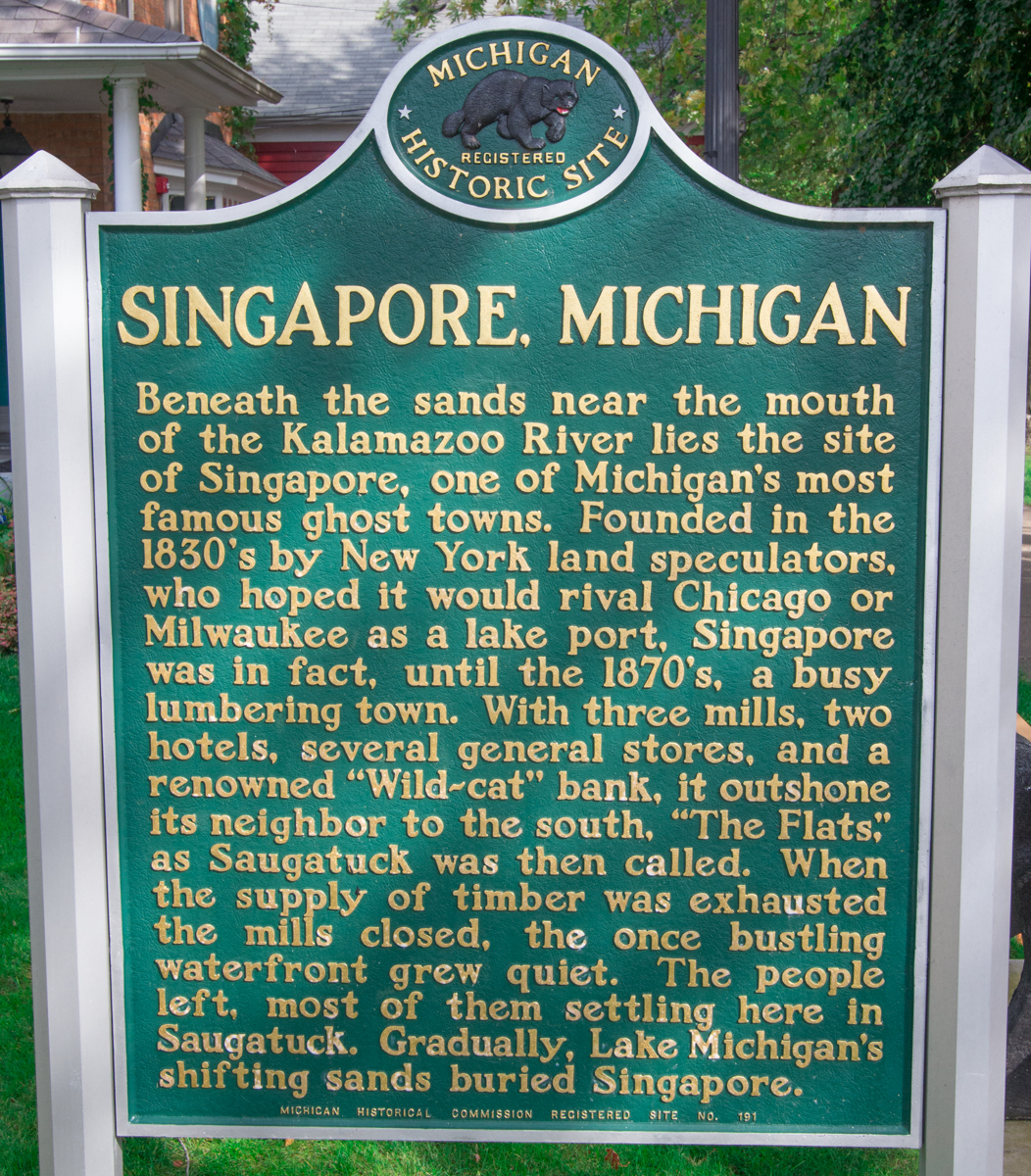 100px